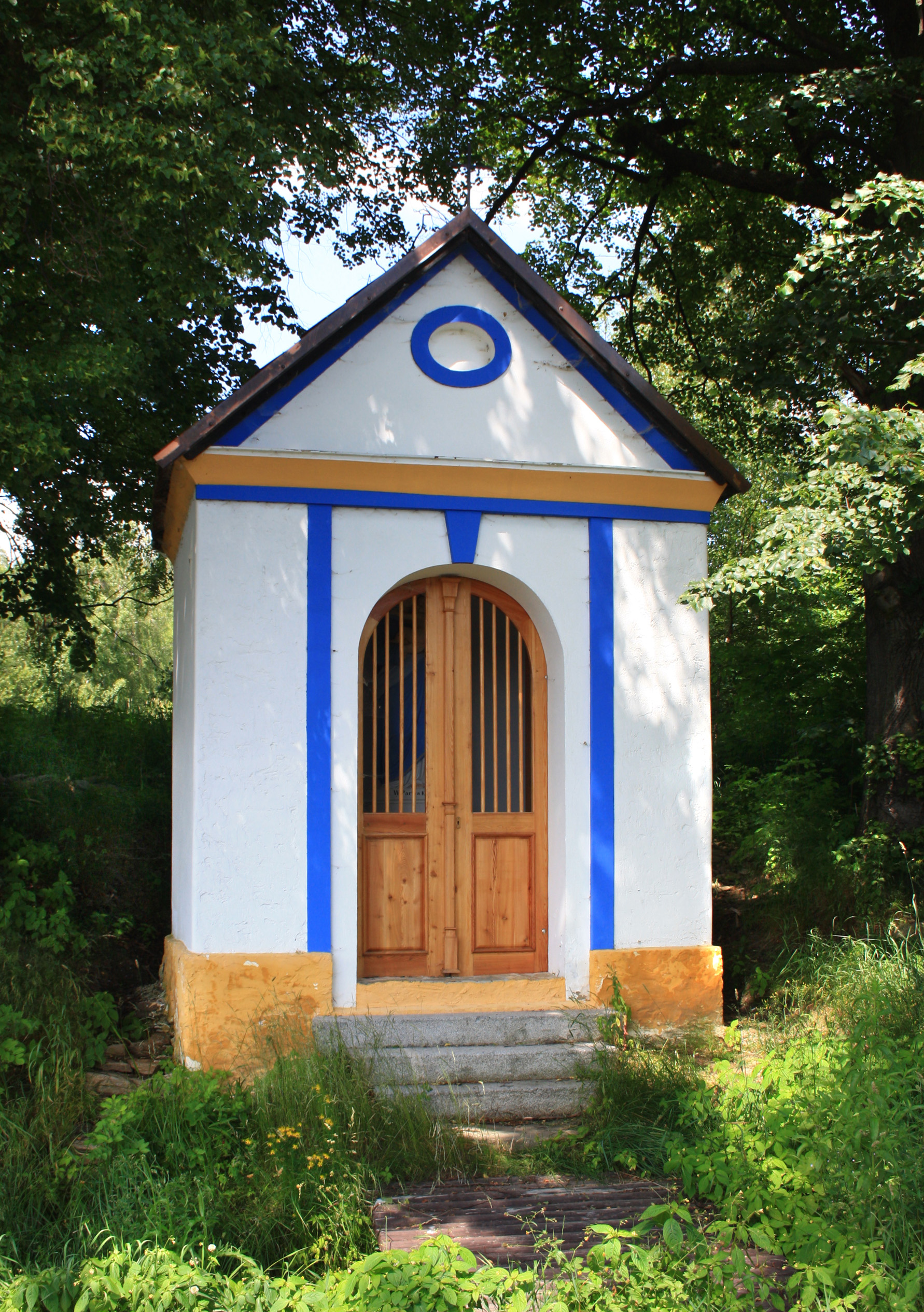 Small chapel in Bečov, part of Blatno, Czech Republic